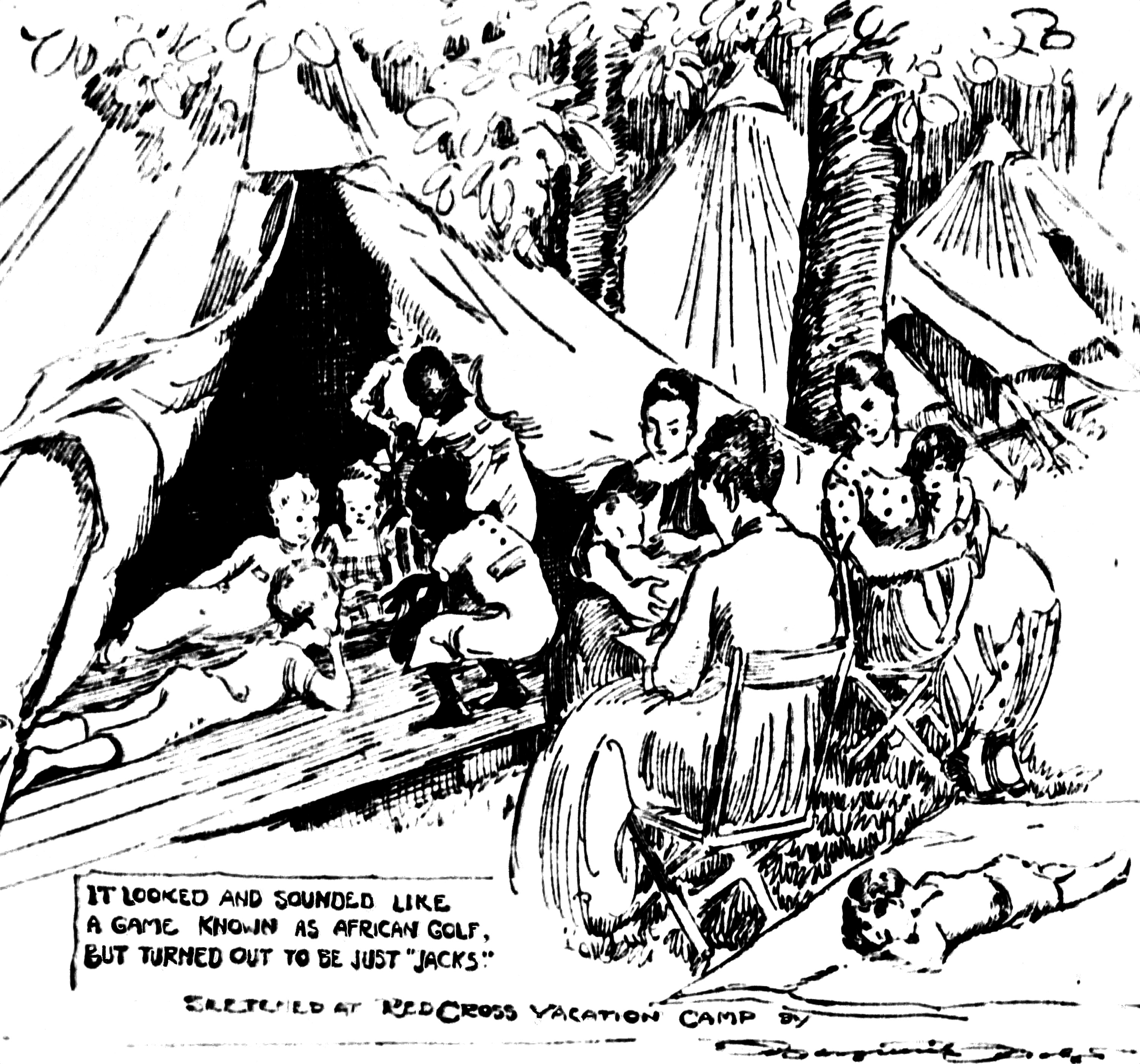 Red Cross [tent colony in Forest Park, St. Louis, as sketched by Marguerite Martyn in 1920. These tents were open to all people because of the August heat. Children in flap of tent are playing jacks. One woman is nursing a baby.